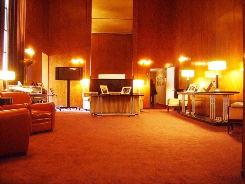 Radio City Music Hall VIP Room